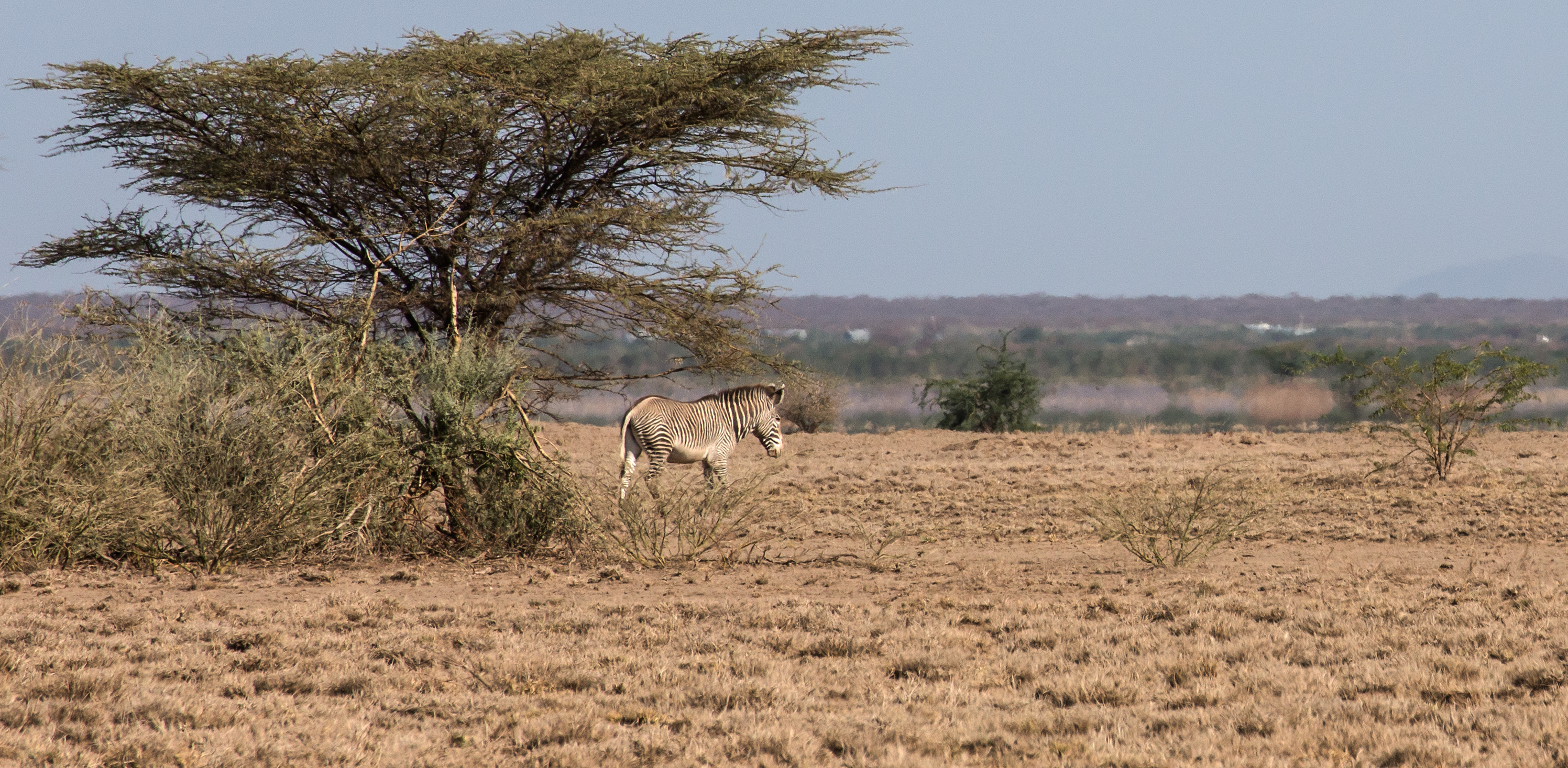 Grevy's zebra in natural habitat in Ethiopia